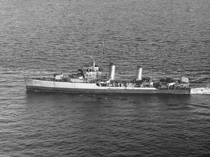 The U.S. Navy destroyer USS Nelson (DD-623) under tow toward Boston harbor, Massachusetts (USA), on 26 August 1944, following temporary repairs in England. Nelson's stern had been blown off by a torpedo from a German motor torpedo boat in a night attack off Normandy, France, on 13 June 1944.